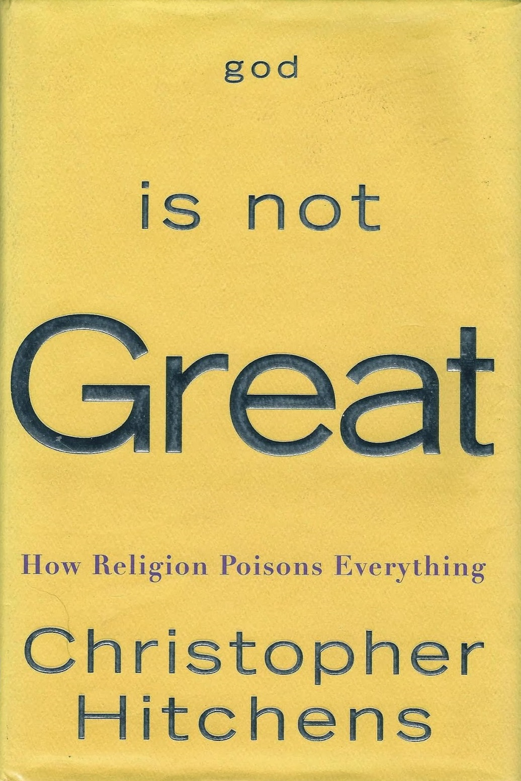 Cover of the first edition of "God Is Not Great"